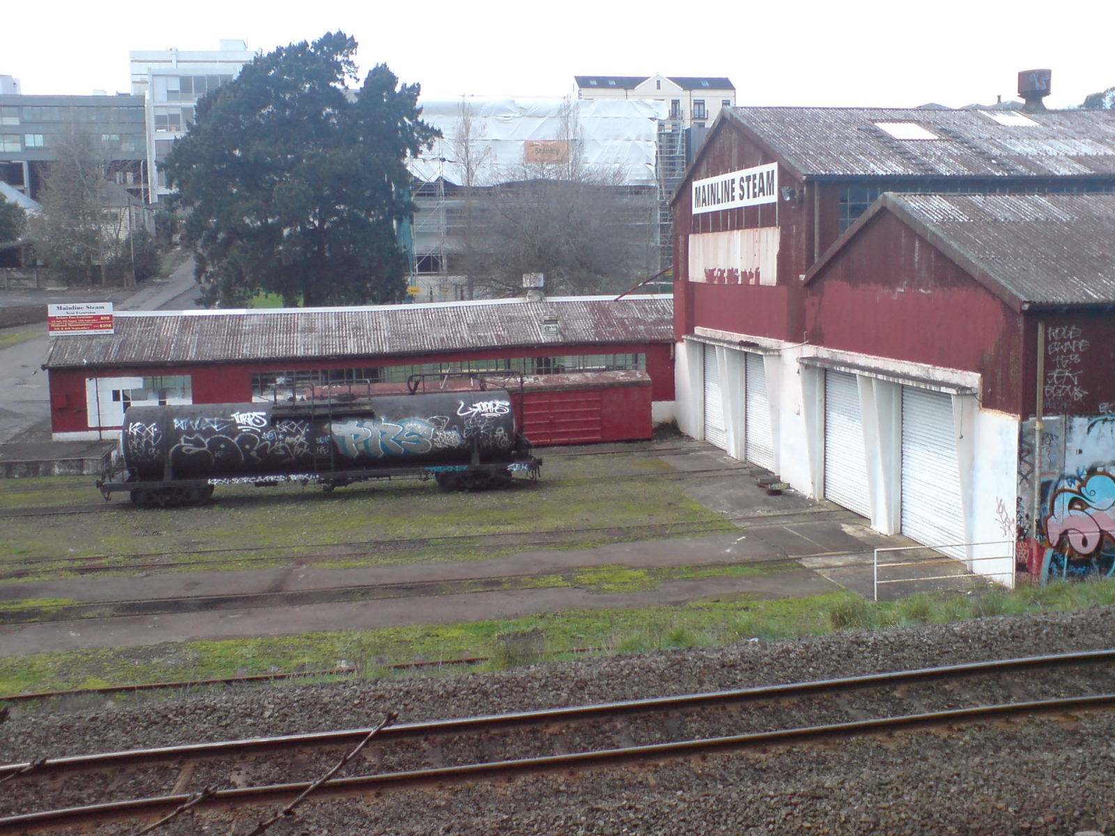 An old tank wagon at the "Mainline Steam" railroad enthusiasts depot in Parnell, Auckland City, New Zealand. Looking east over the northern section of the depot, with the rail line to Britomart (Western / Southern) in front.